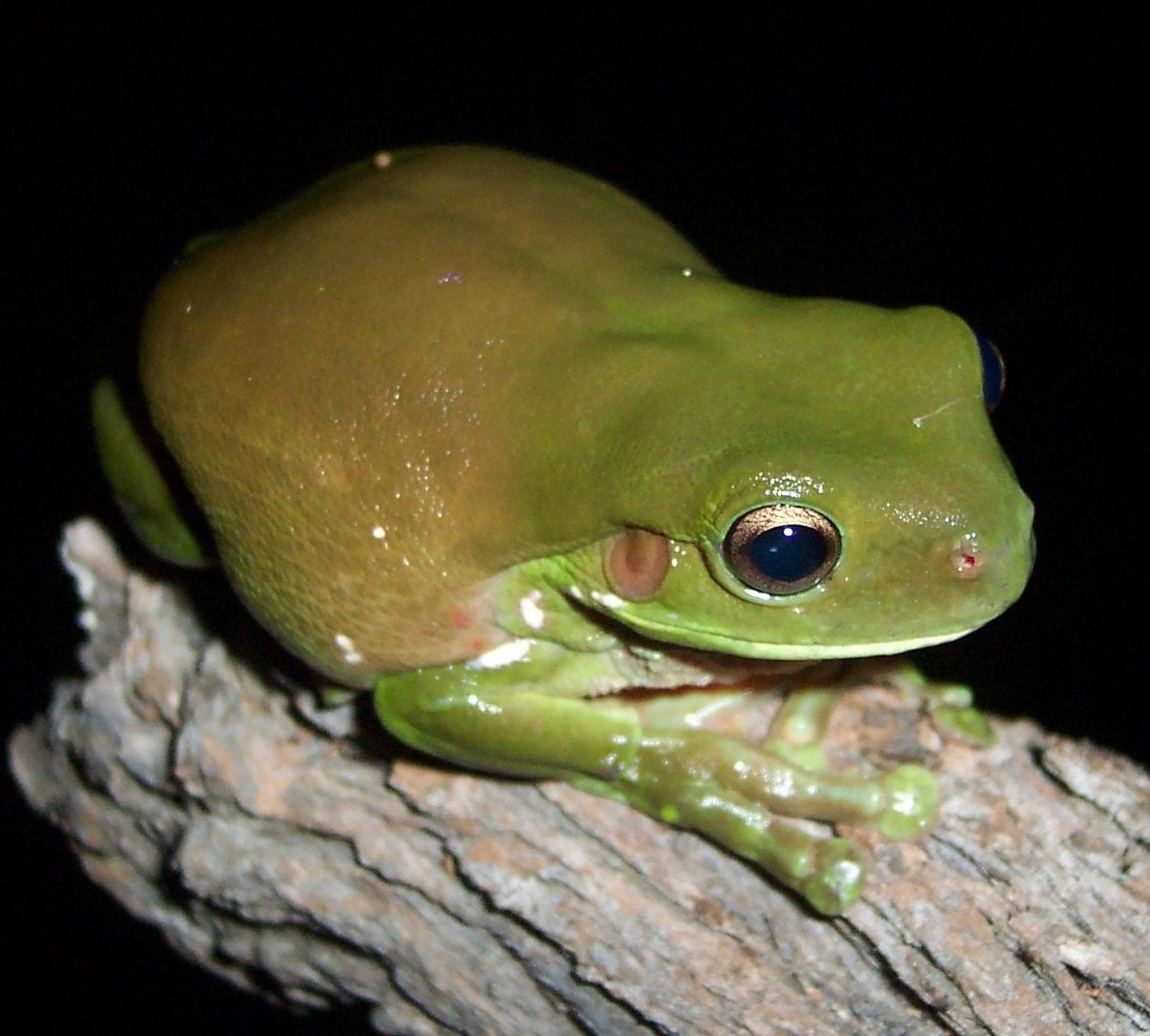 A brown-green colour morph of (Litoria caerulea), the White's Tree Frog, from western Sydney. Licensing Category:Frog images